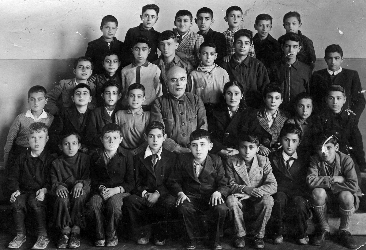 Edvard Chubaryan 75th Birthday, 05 May 2011 05, No. 10